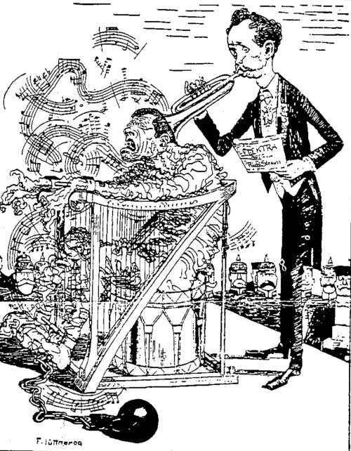 contemporary cartoon by Felix Juettner